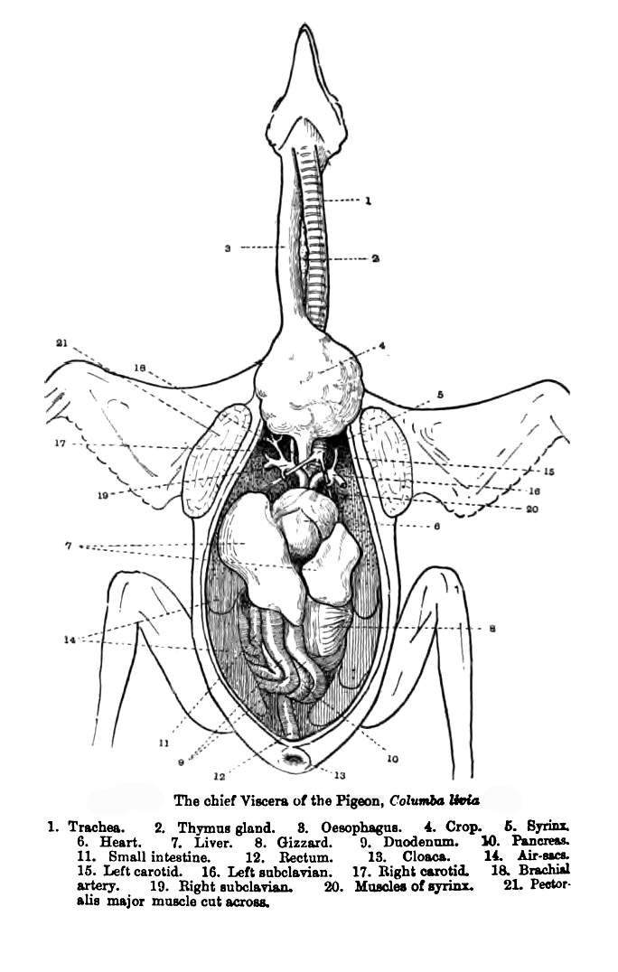 Viscera of pigeon